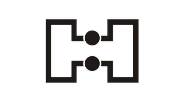 Escudo de Taxco de Alarcón